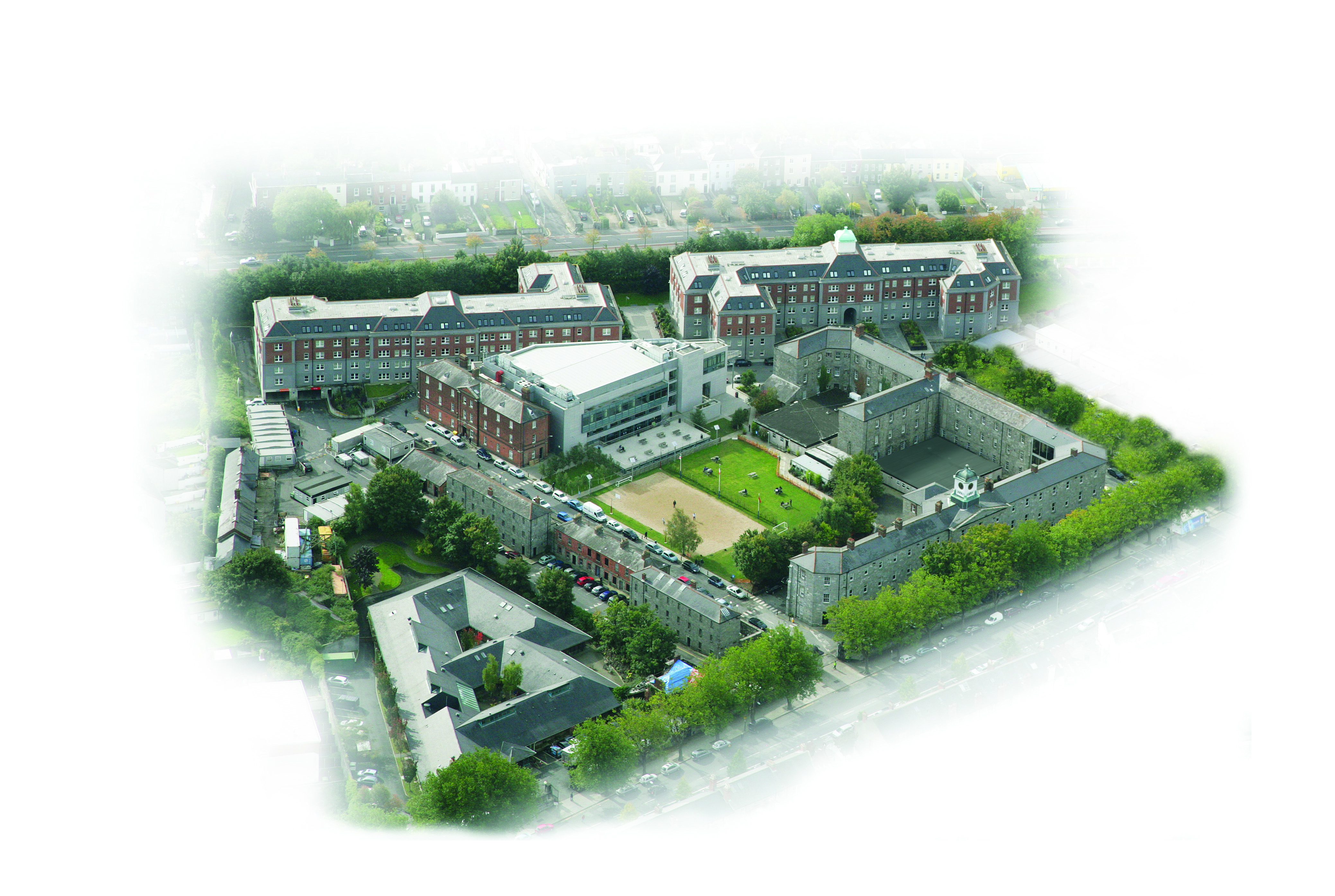 Aerial view of Griffith College Dublin campus